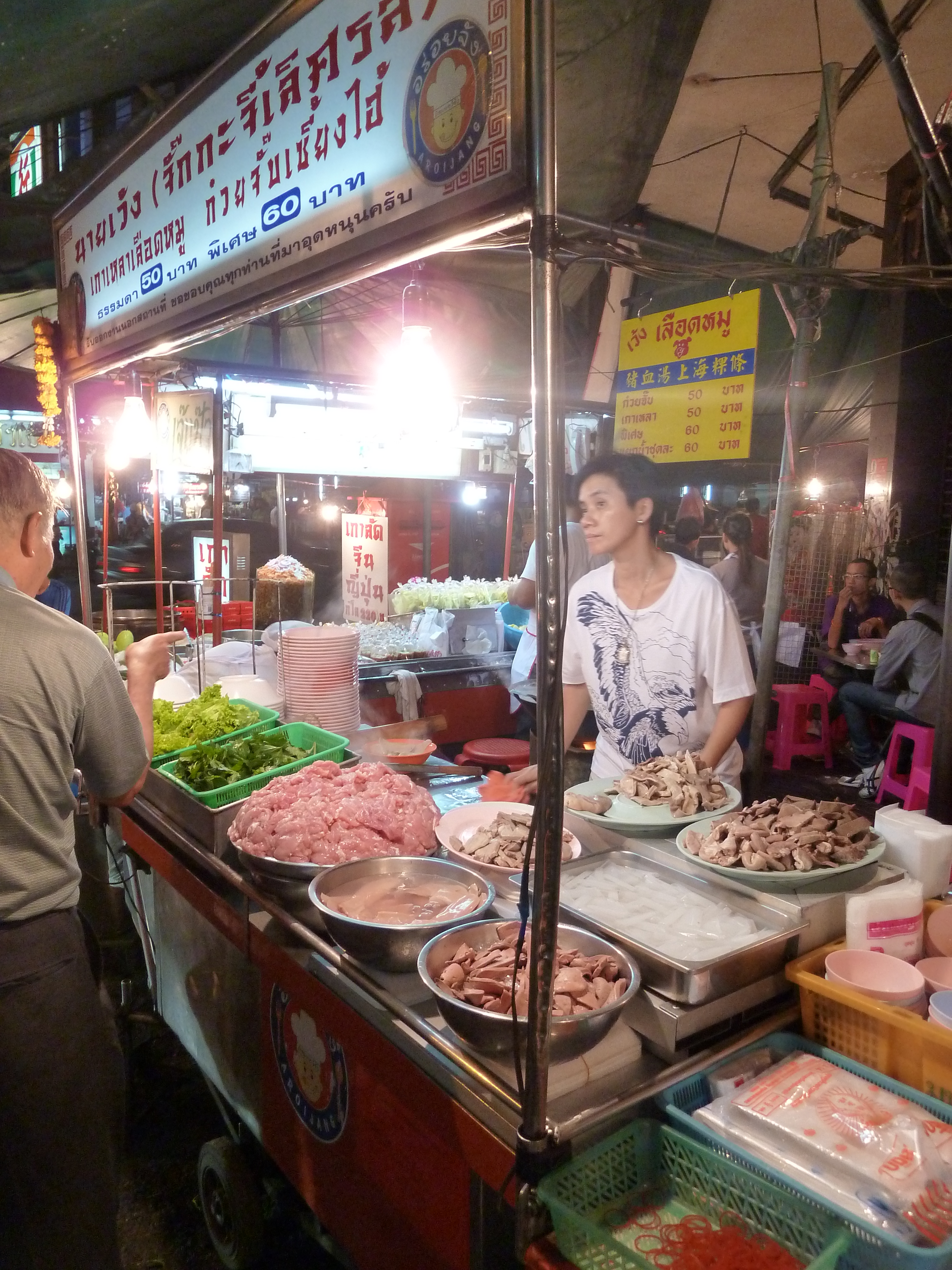 Street food in Bangkok, Thailand